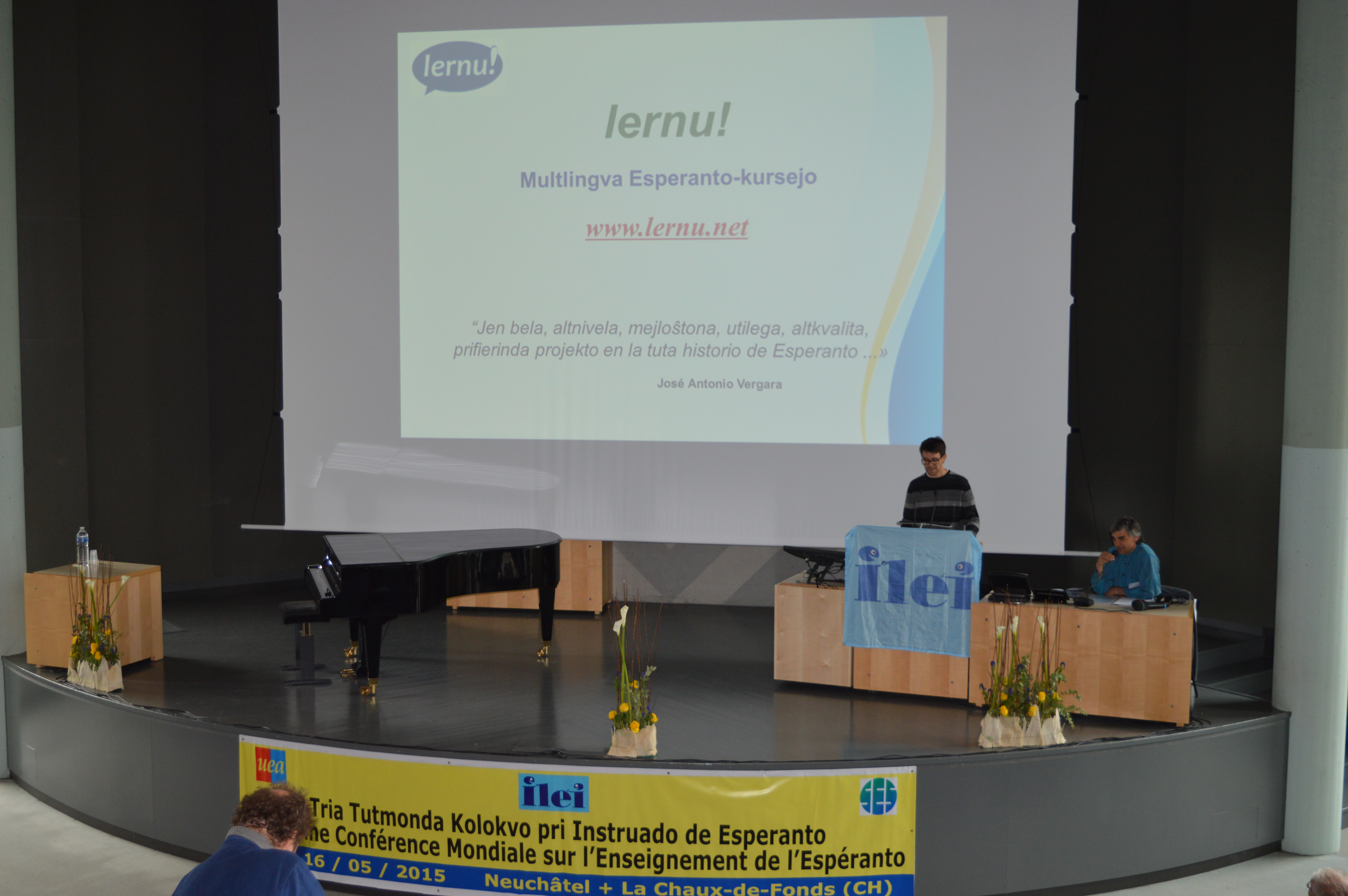 Christophe Chazarein speaks during the third international conference on Esperanto teachting, canton of Neuchatel, SwitzerlandEsperanto: Christophe Chazarein dum la tria konferenco pri Esperanto-instruado, Neŭŝatelo, Svislando